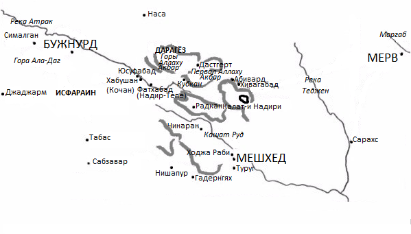 Northern Khorasan